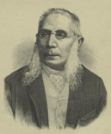 Tomás de Carvalho (1819-1897), Portuguese physician and politician.